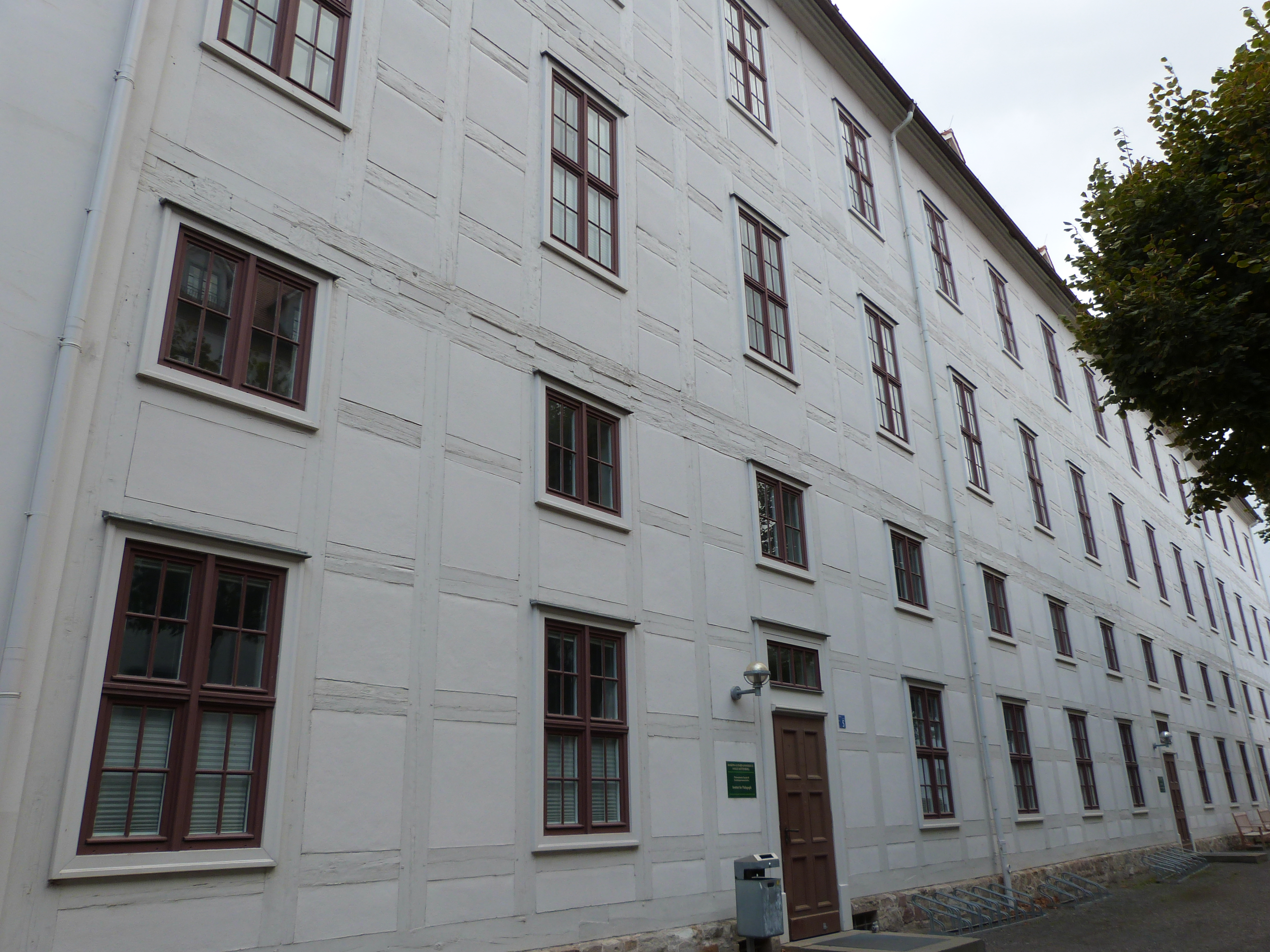 Houses 5-7, former orphanage for girls, Francke foundations in Halle (Saale), today university buildings